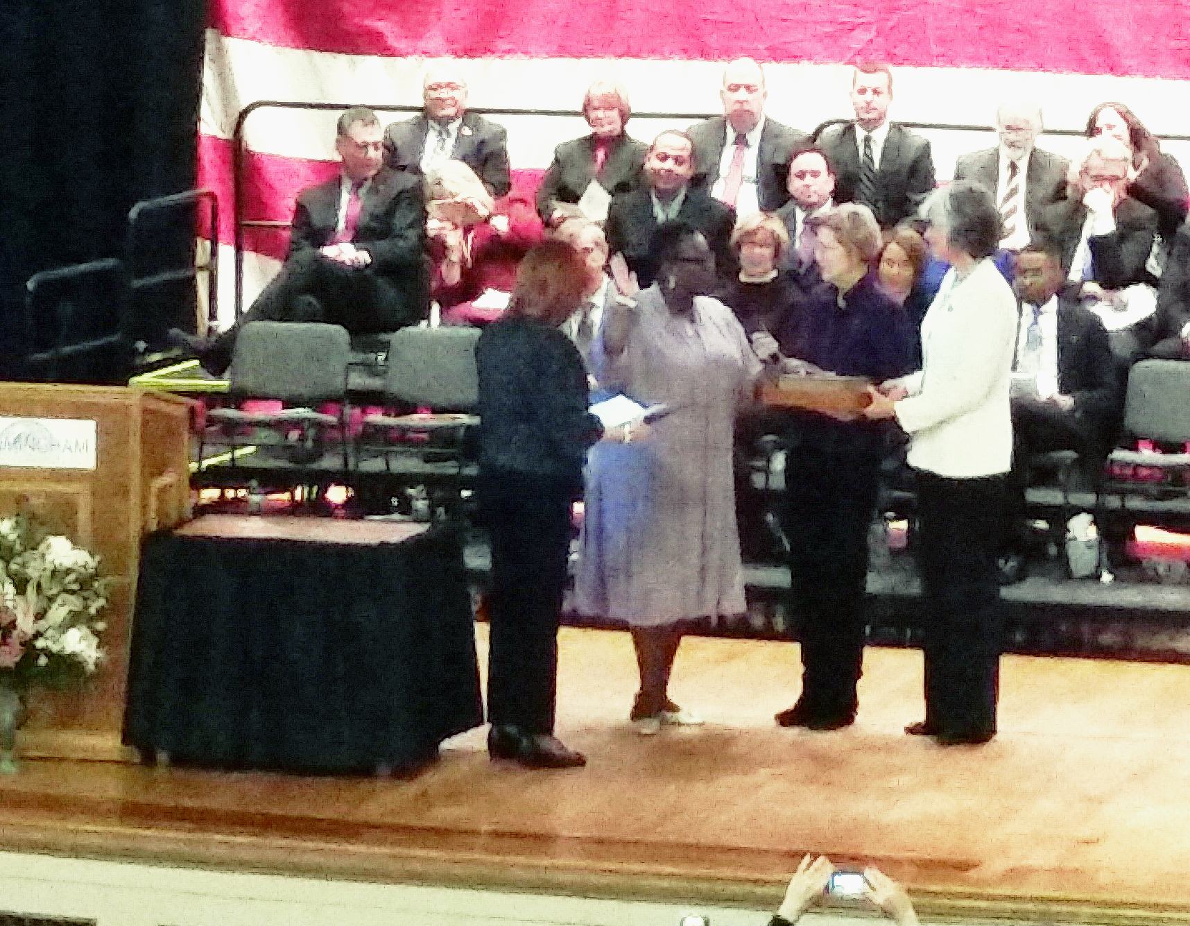 Inauguration of Yvonne M. Spicer as first Mayor of Framingham, Massachusetts, with her hand on a historic bible held by Senator Elizabeth Warren and Representative Katherine Clark.